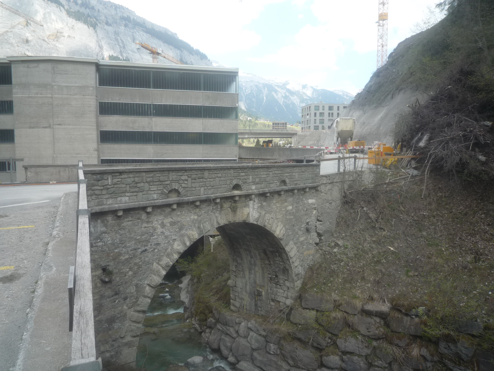 old Bridge Stenna and old parking.